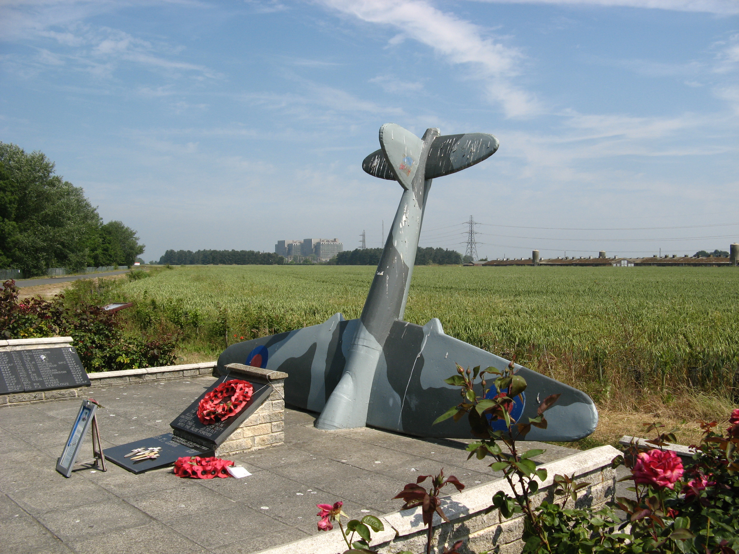 RAF Bradwell Bay, memorial to the crews lost or missing in World War 2. The memorial features a model of a De Haviland Mosquito, and is located by one of the former perimeter roads. In the distance Bradwell nuclear power station can be seen.